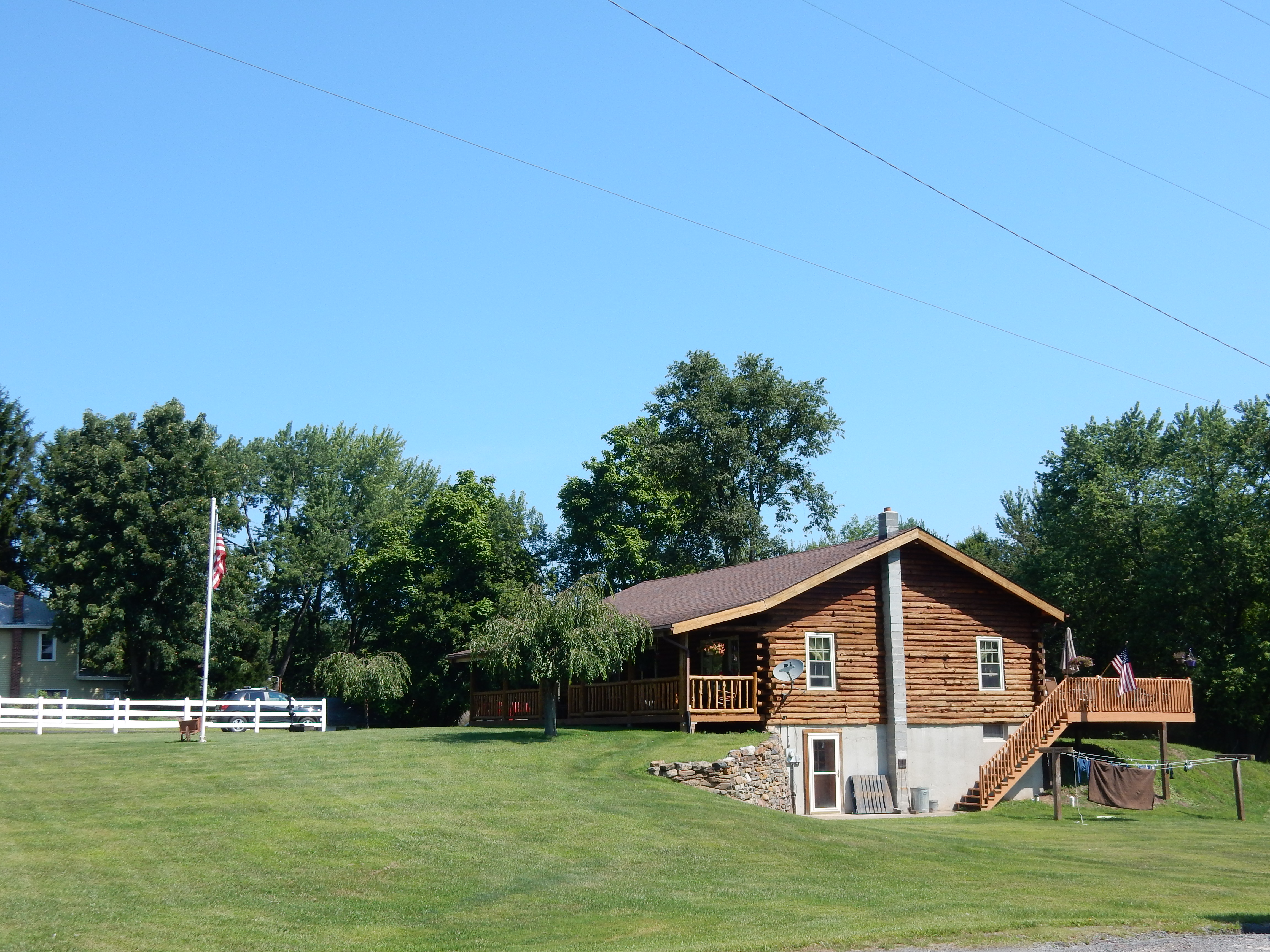 Residence on Grier Ave. near corner of Barnesville Dr., Barnesville, Pennsylvania. This part of Barnesville is located in Rush Township, Schuylkill County, Pennsylvania.